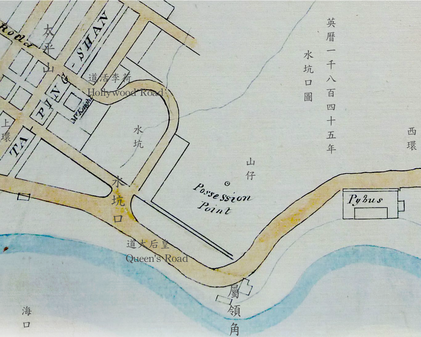 粵語: 一八四五年水坑口圖；取自一八四五年一圖Plan of Victoria, Hong Kong